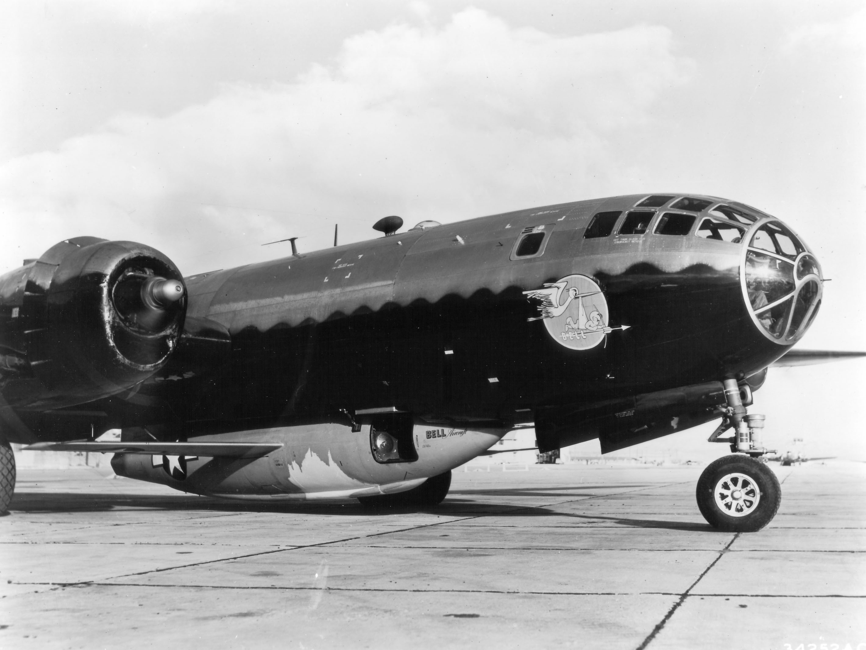 Bell X-1 resting in the belly of a B-29 Superfortress. [EDIT: the aircraft in the belly of the bomber is an X-1 of the first generation.]